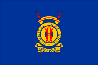 Kenya Police FlagKiswahili: Bendera ya Polisi wa Kenya